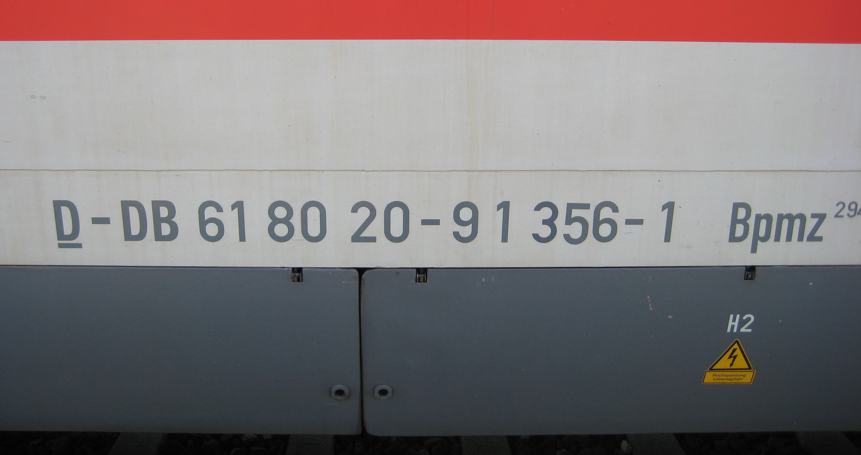 UIC number of a coach Bpmz of Deutsche Bahn, Germany